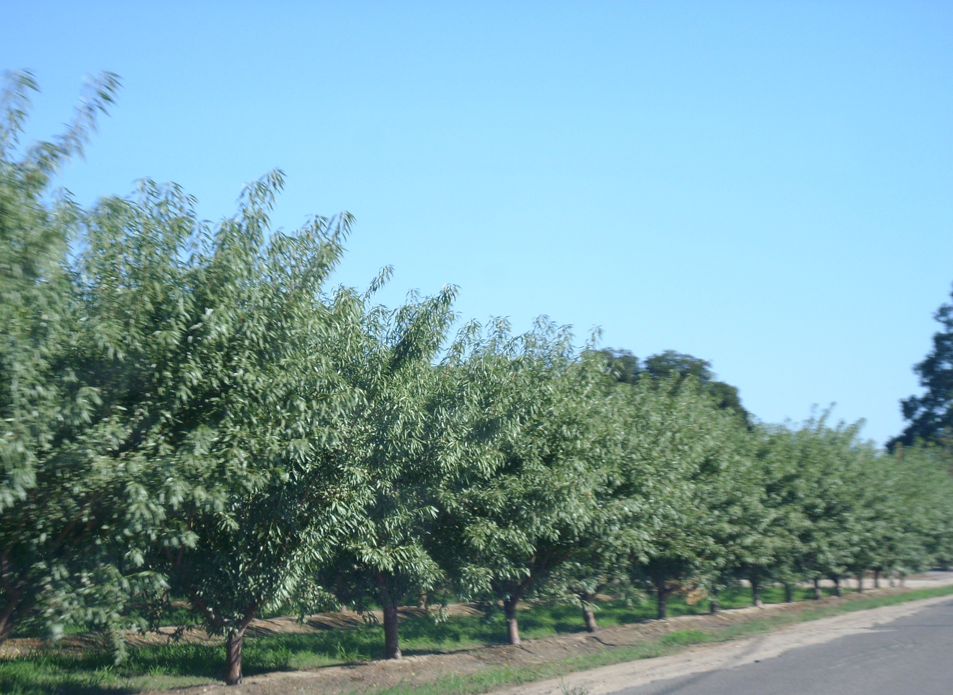 An almond orchard just outside of Turlock and Hughson.